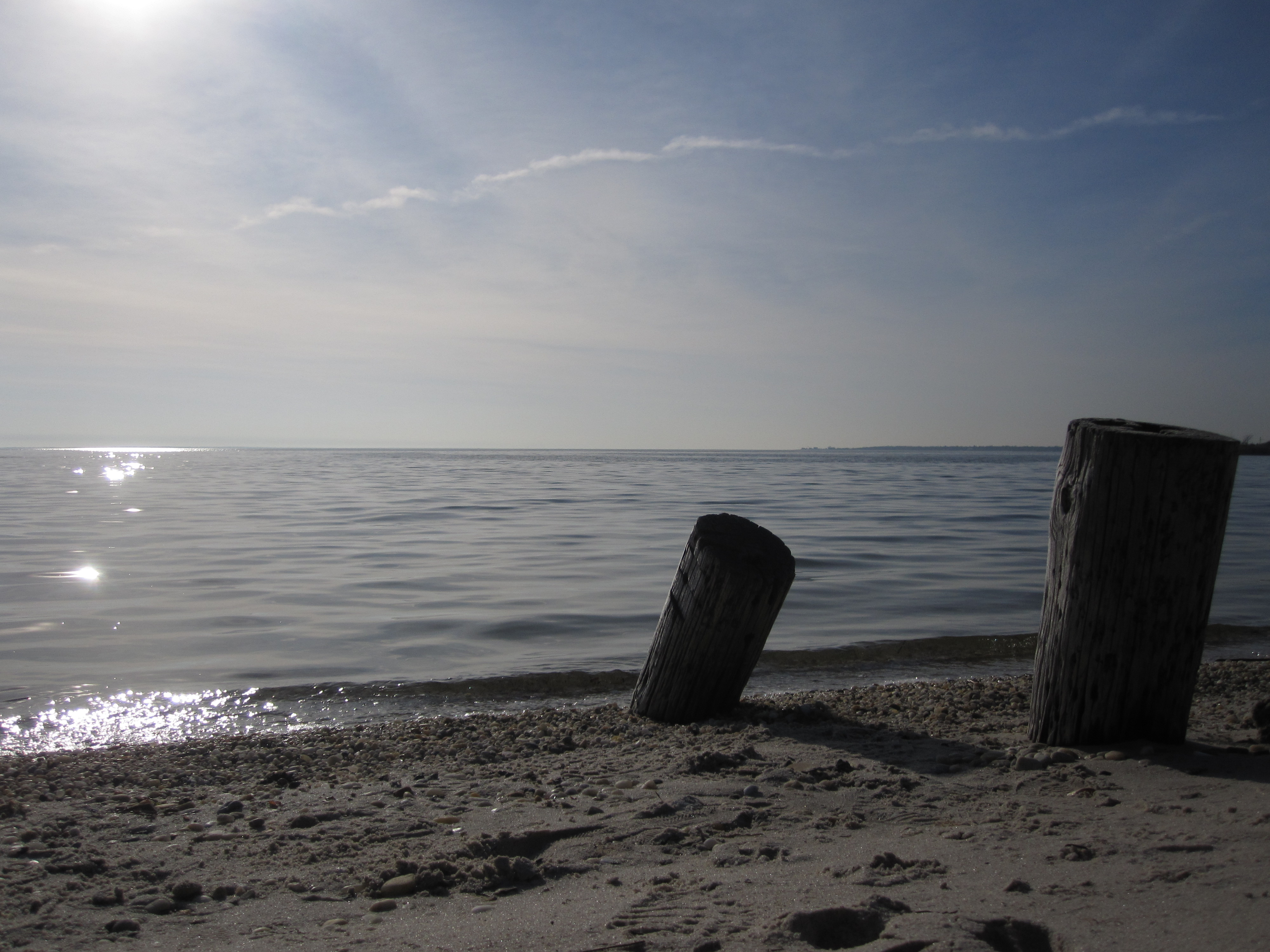 Long Island's East Patchogue - Great South Bay